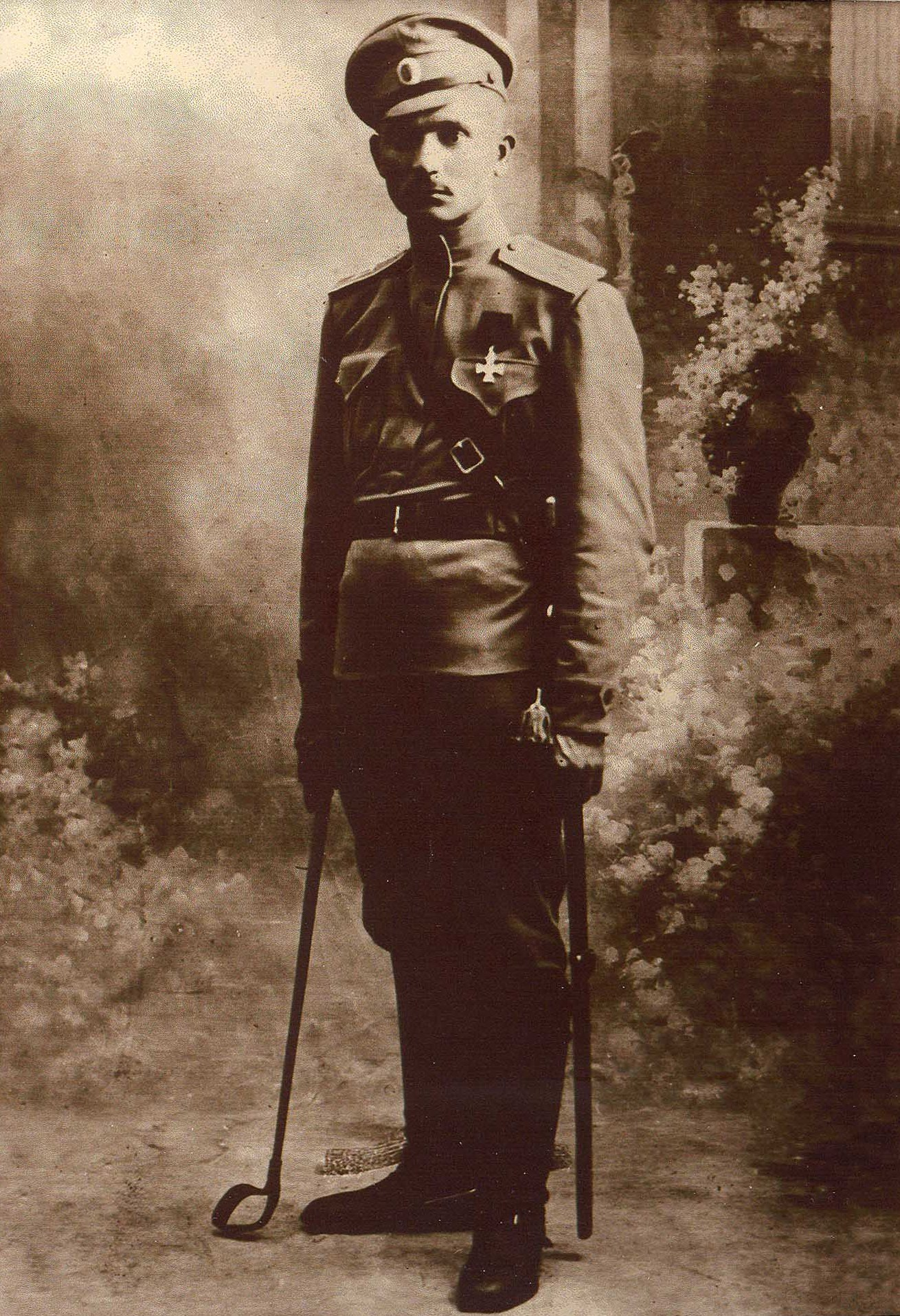 Kulakov Petr Nikiforovich, 1917, 15 aug. Romanian Front